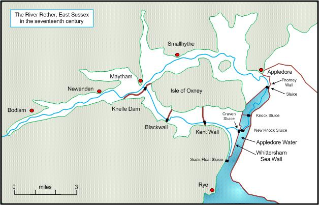 Development of the River Rother, East Sussex, England during the seventeenth century